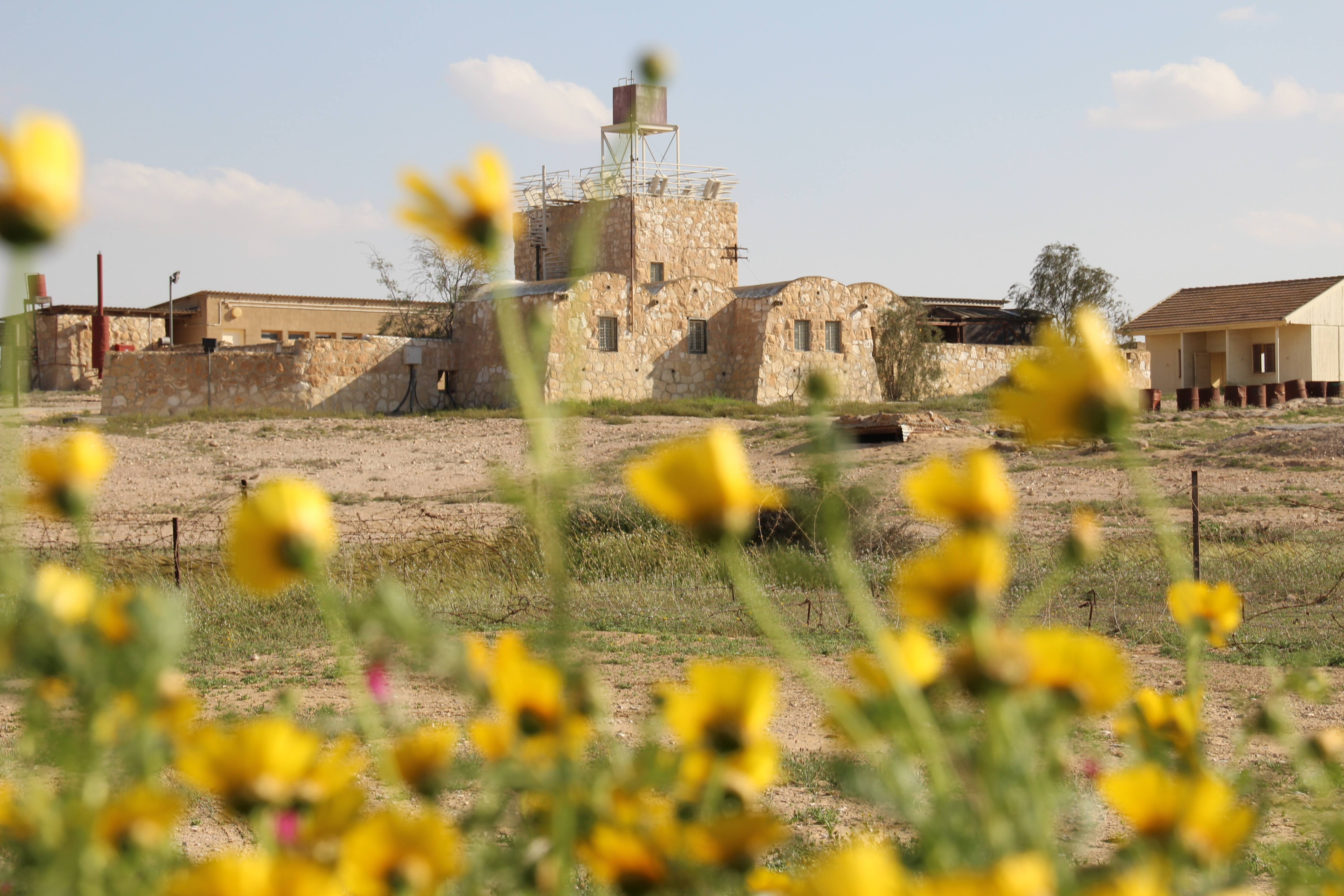 Mitzpe Revivim in the name of Josef Weitz